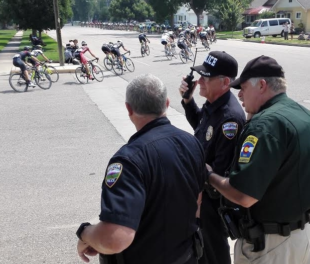 Rangers working with Windsor PD